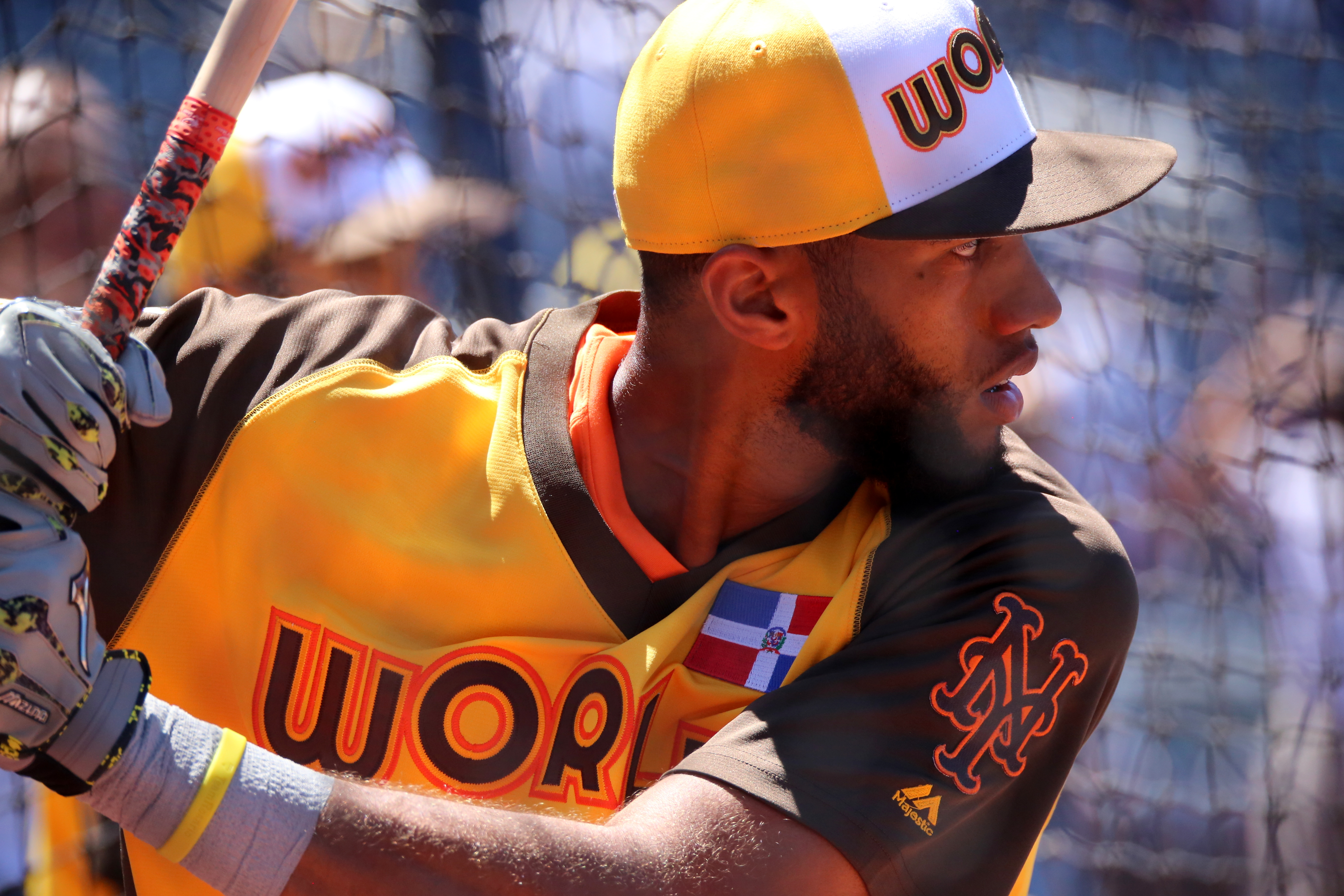 Mets prospect Amed Rosario takes BP before the SiriusXM All-Star Futures Game.